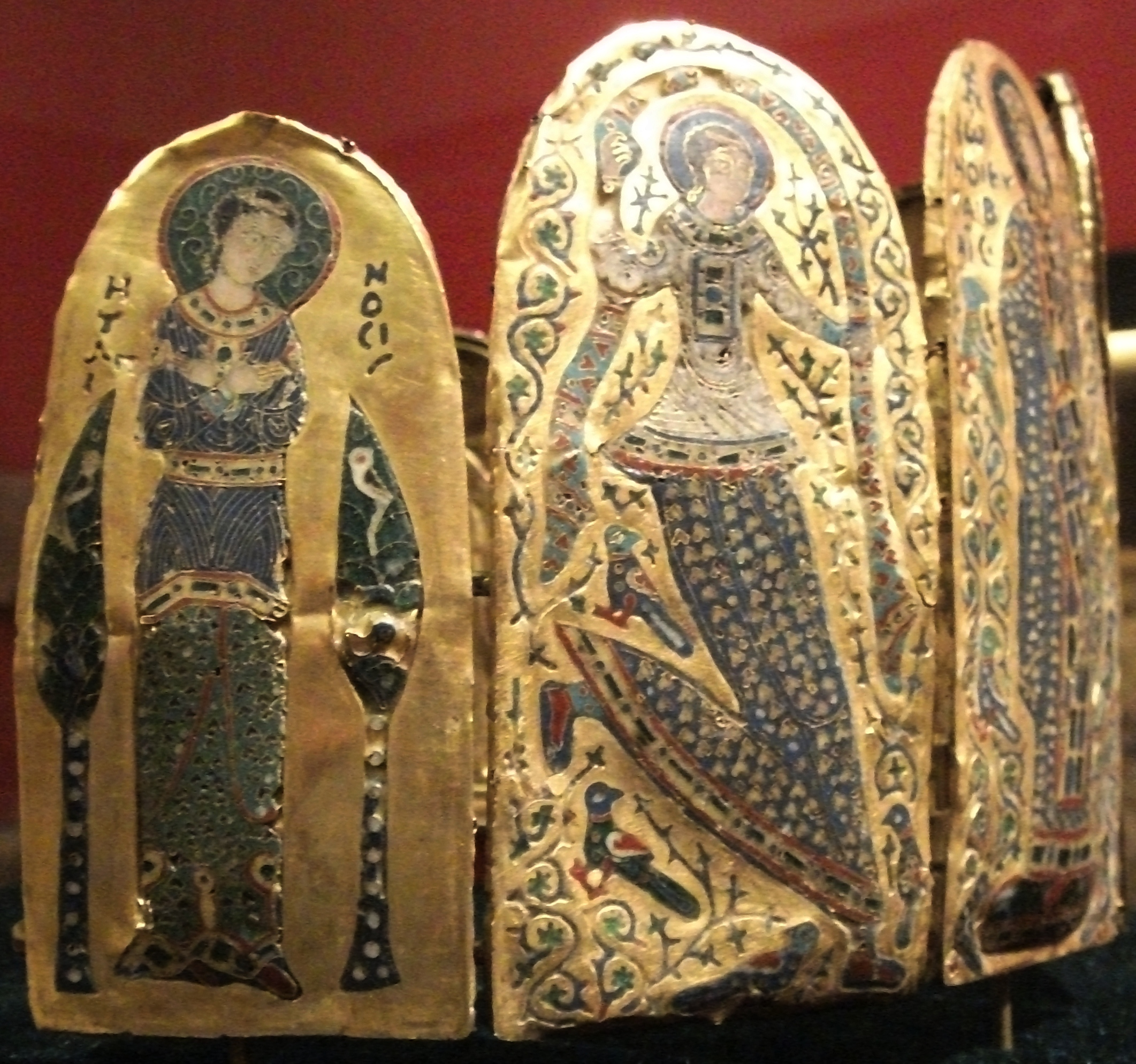 So-called Crown of Konstantinos IX Monomakhos, National Museum of Hungary, Budapest